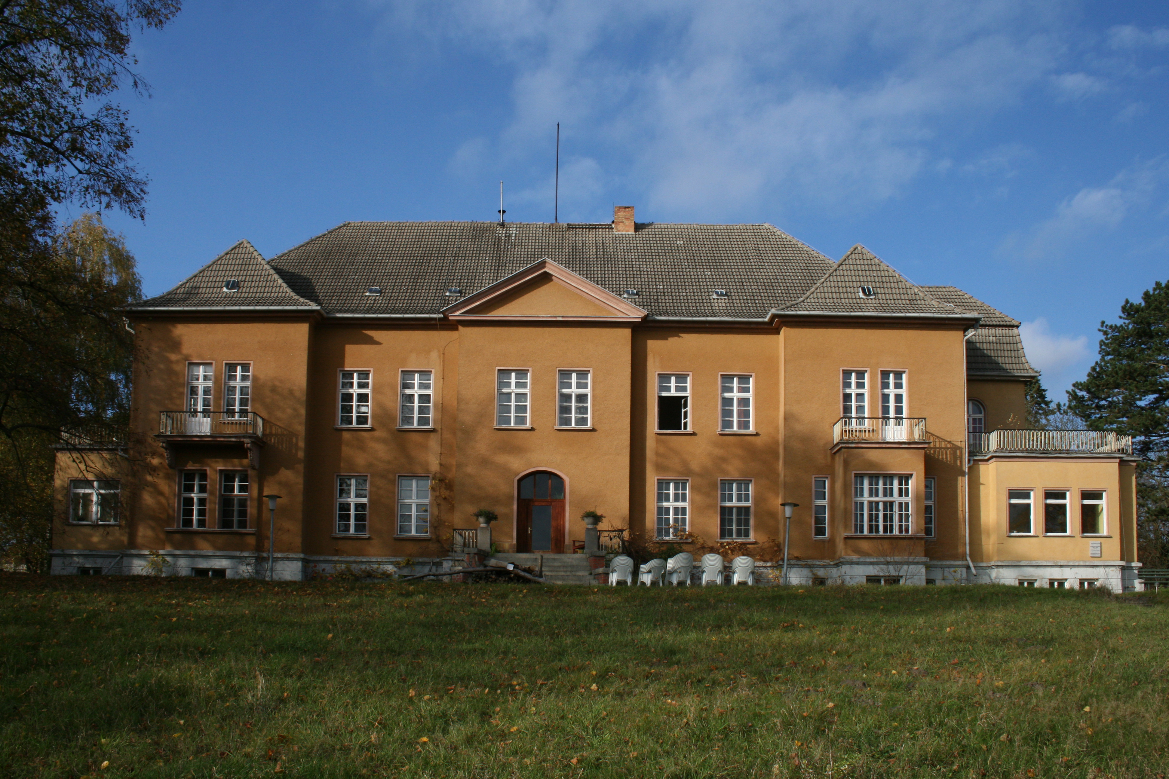 Gutshaus im Park von Alt Rehse